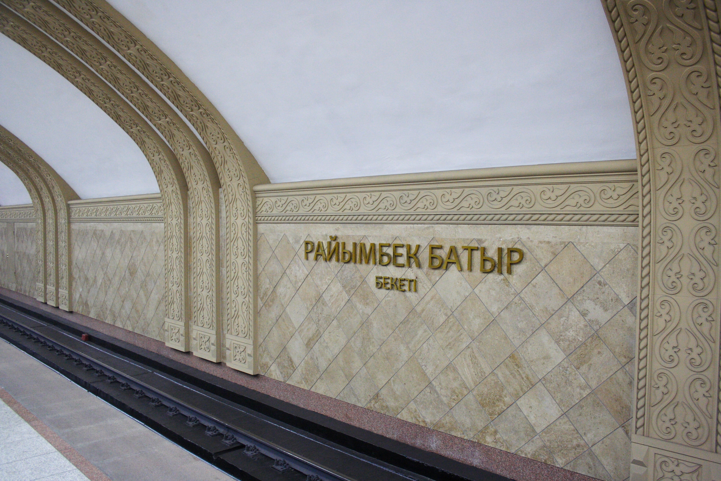 Almaty Metro